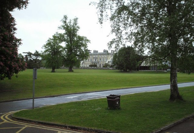 Ashtead Park House Built in the late C18th, it was the home to the lords of Ashtead Manor. Since 1924 the house has been a private school.